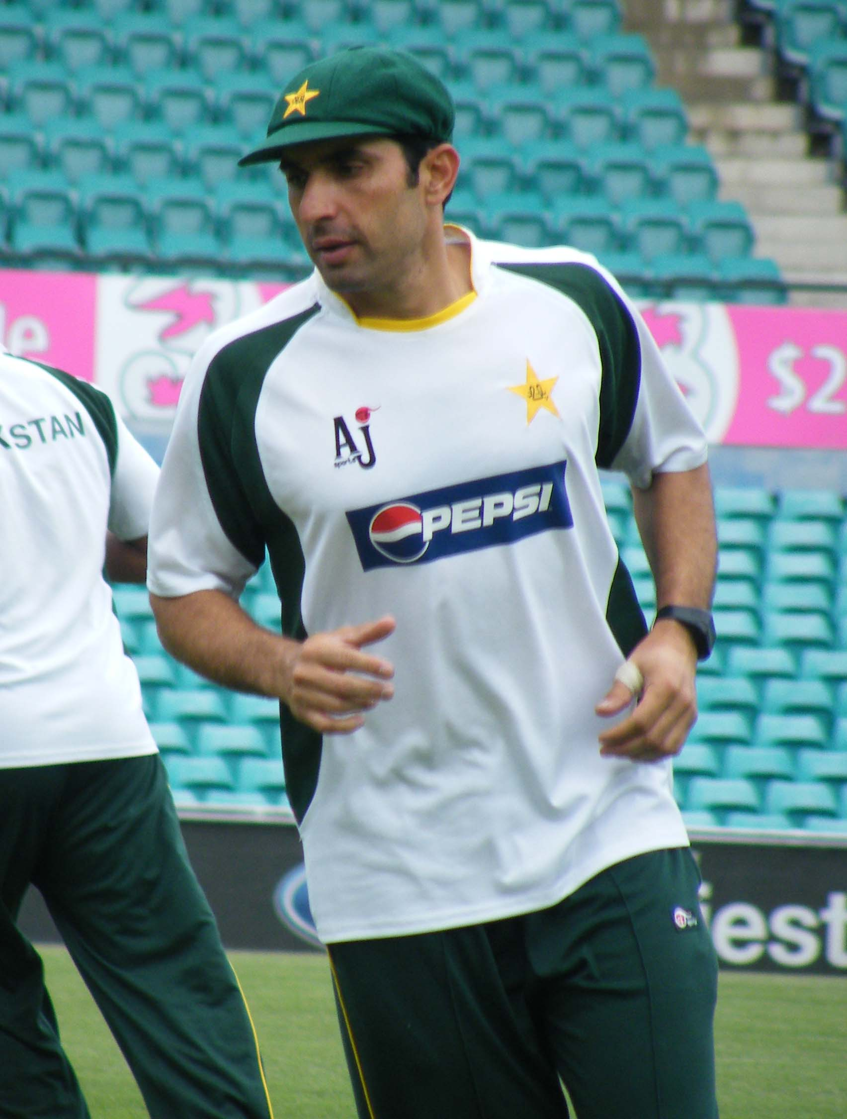 Pakistani cricketer Misbah-ul-Haq.